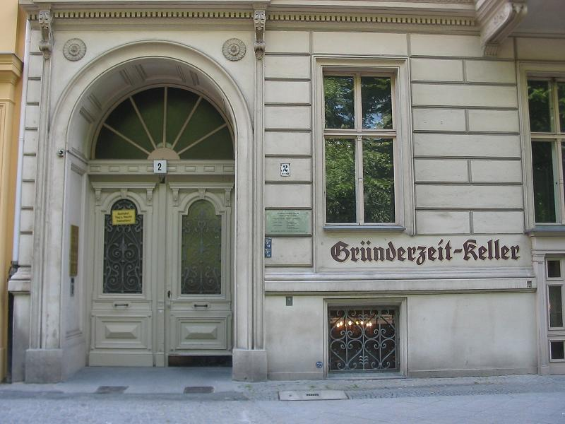 Building at the Magdeburger Platz (place) - a small parc at the southend of Berlin-Tiergarten, built in 1872